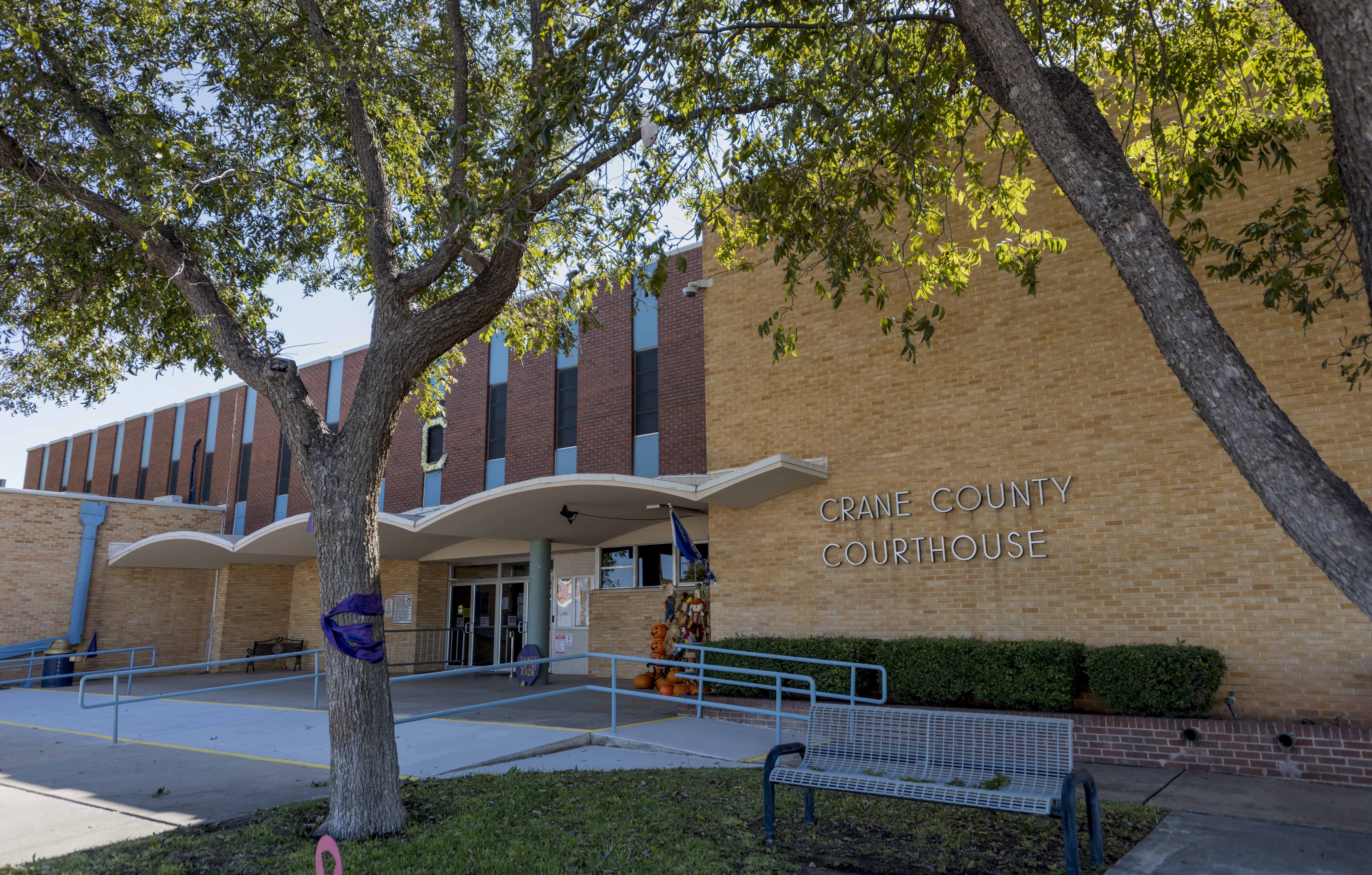 This is a photograph of the Crane County courthouse taken in November 2019.